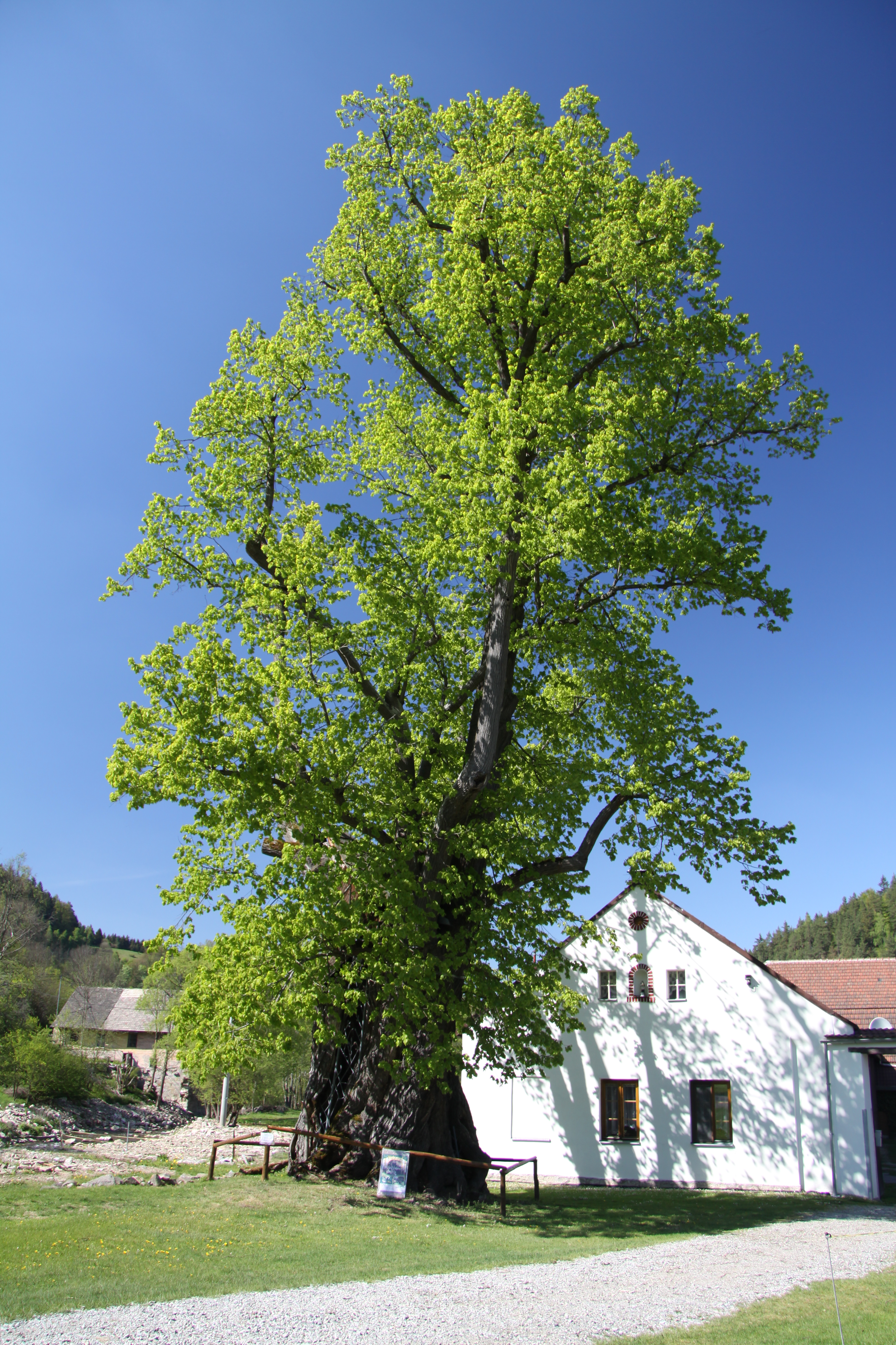 Famous tree called "Sudslavická lípa" in Sudslavice village near Vimperk, Prachatice District, Czech Republic